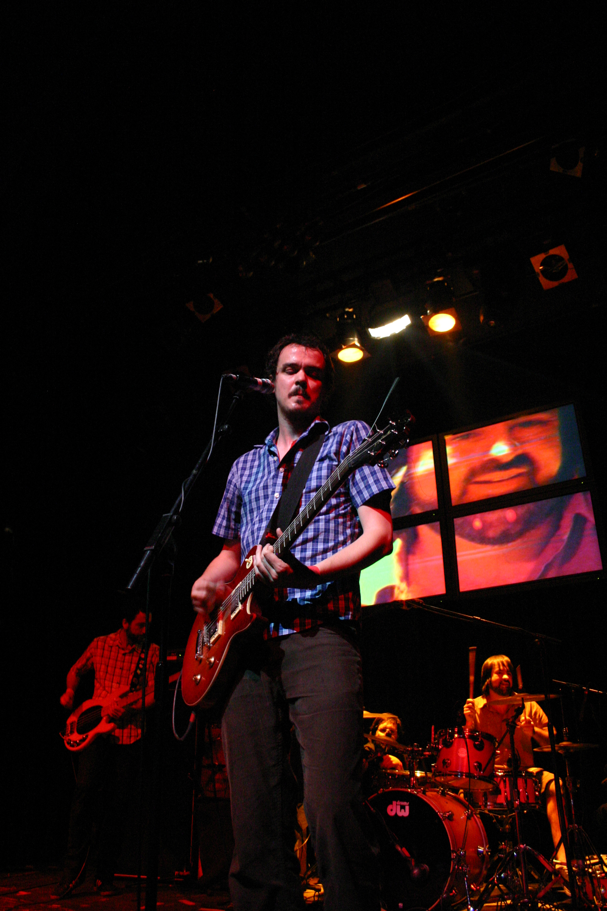 Havalina, an spanish Idie pop band at a concert in "El Cosmonauta" on 29th June 2009 performed in Chueca, Madrid, Spain.